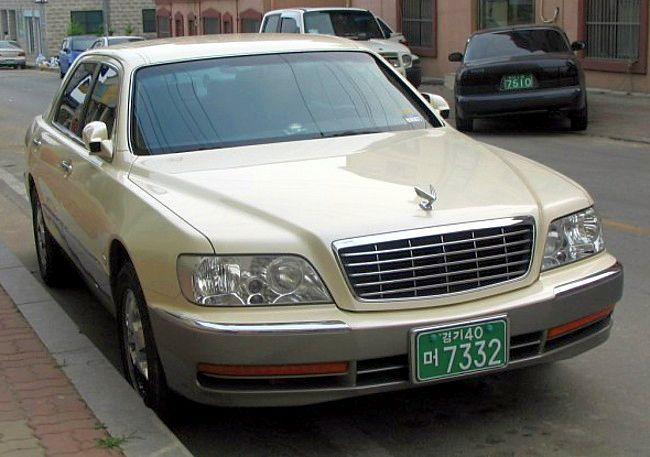 Ian Finnesey, I took the picture and am uploading it for use here.